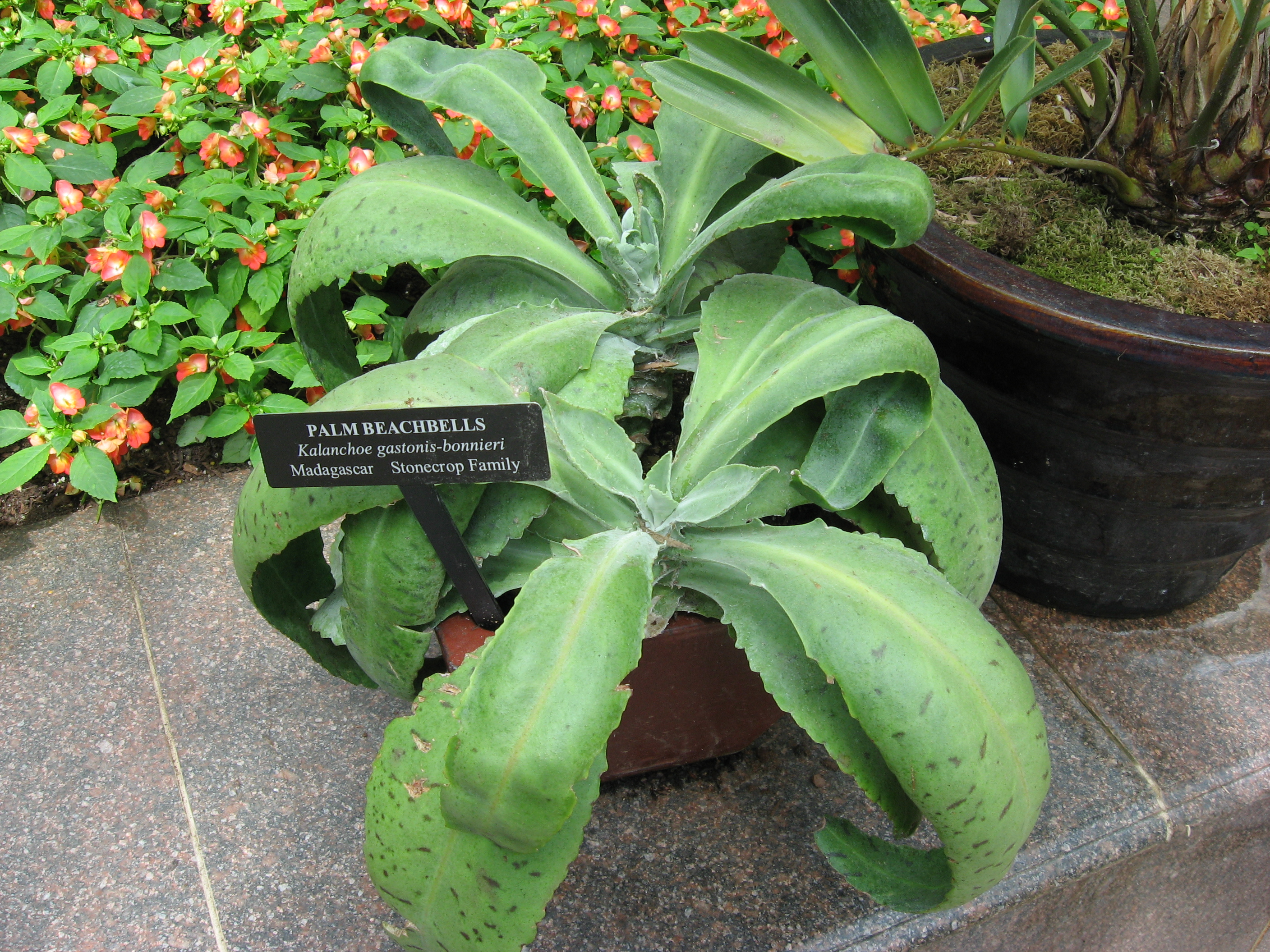 A picture of Kalanchoe gastonis-bonnieri.